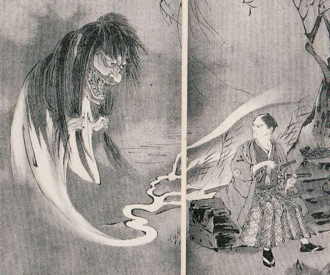 Kubireoni (縊鬼) from the "Yasōkidan" (夜窓鬼談, Japanese book)